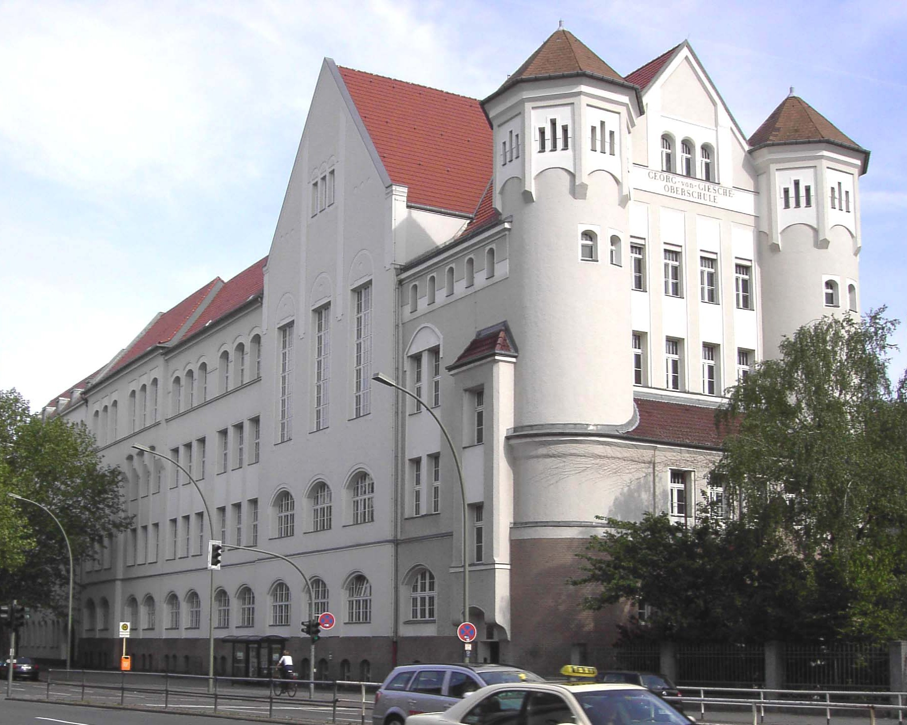 Werner-Siemens-Realgymnasium (1903–1935), former school of Marcel Reich-Ranicki, Today: Georg-von-Gische-Schule, Hohenstaufenstr. 47–48, Berlin-Schöneberg